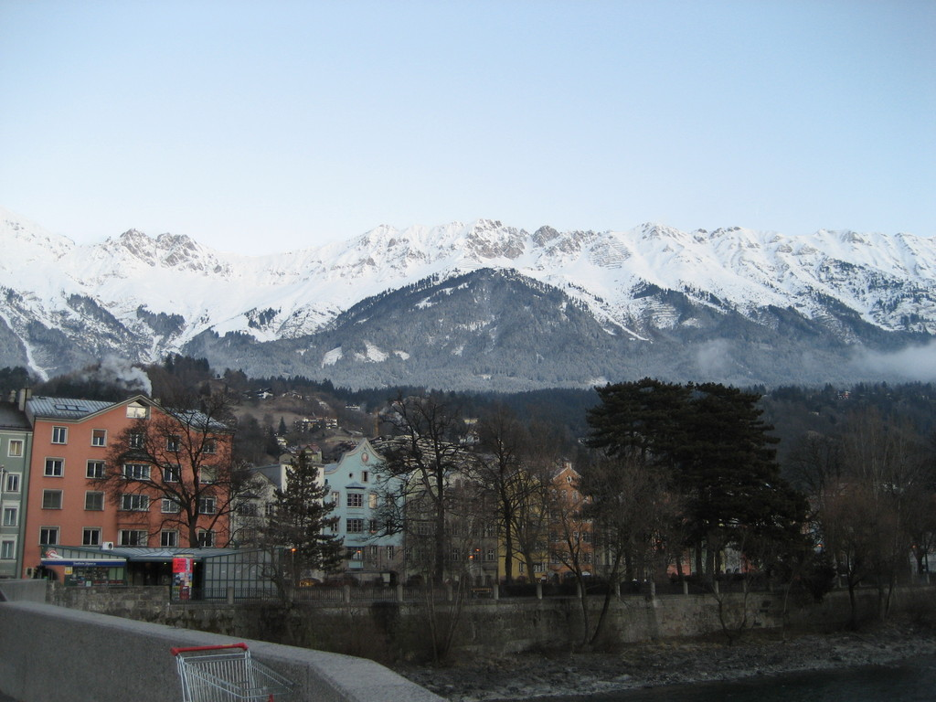 view from bridge Innbrücke in an easterly direction at 5am